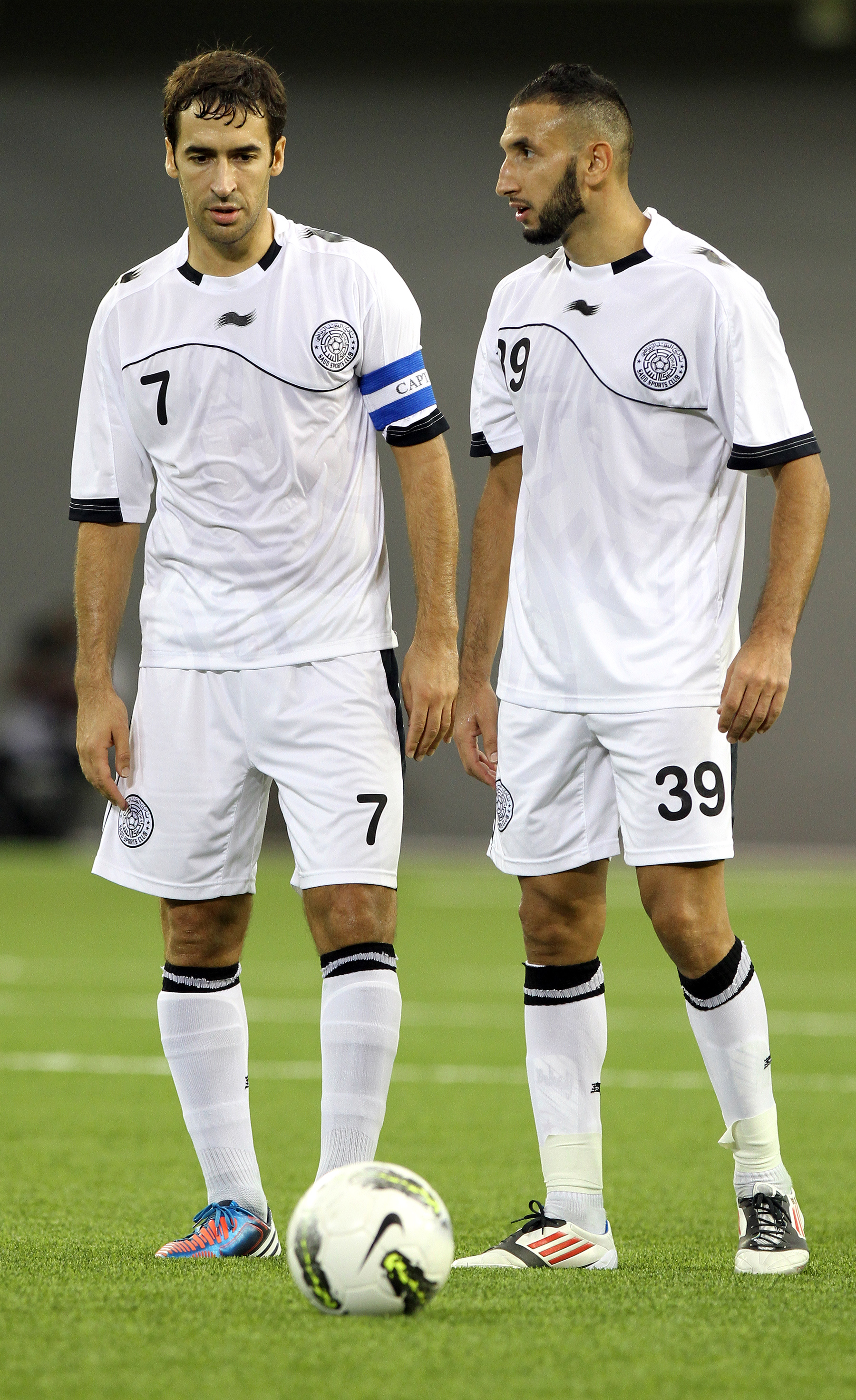 Raúl González and Nadir Belhadj (Al-Sadd) vs Al-Rayyan, 2012 Sheikh Jassim Cup final